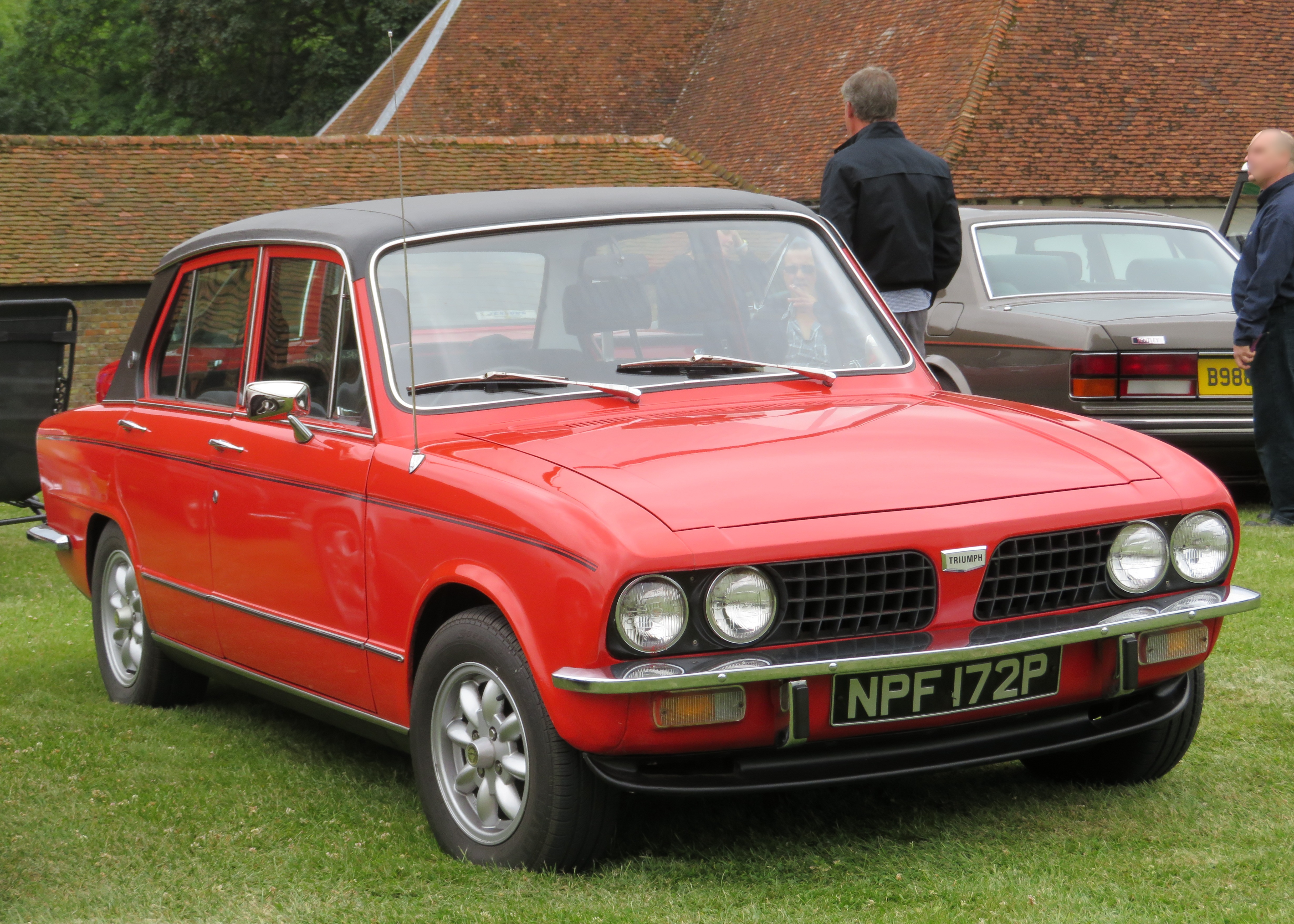 Triumph Dolomite (1976)